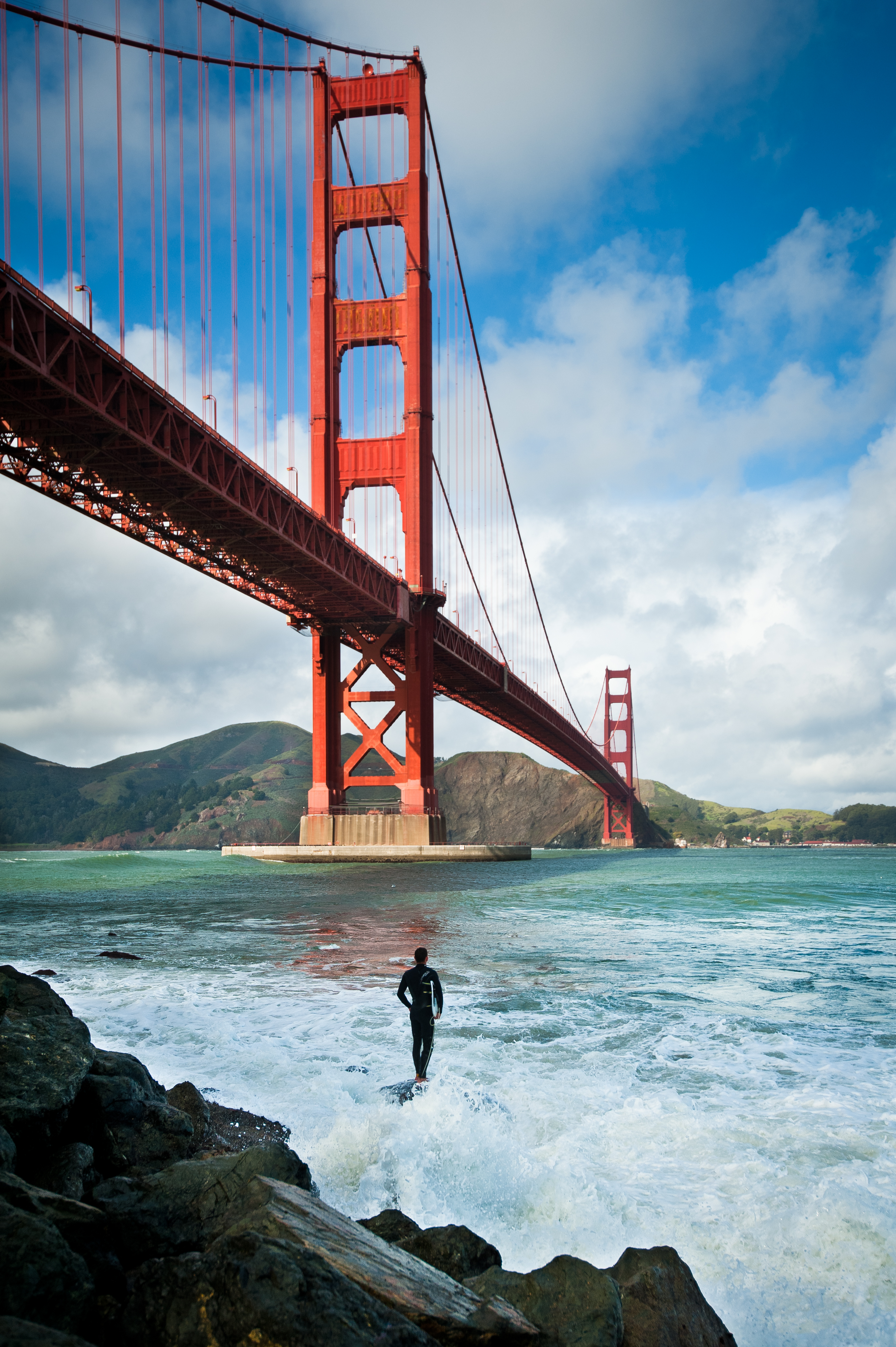 A surfer about to jump into the water below the Golden Gate Bridge